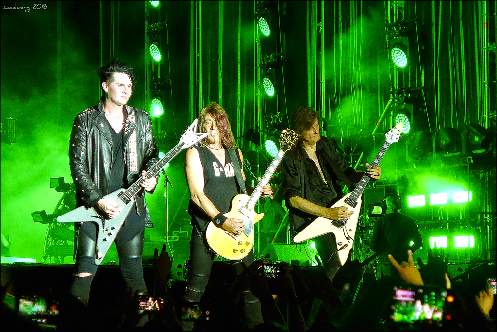 live RockFest Barcelona, 6-7-2018